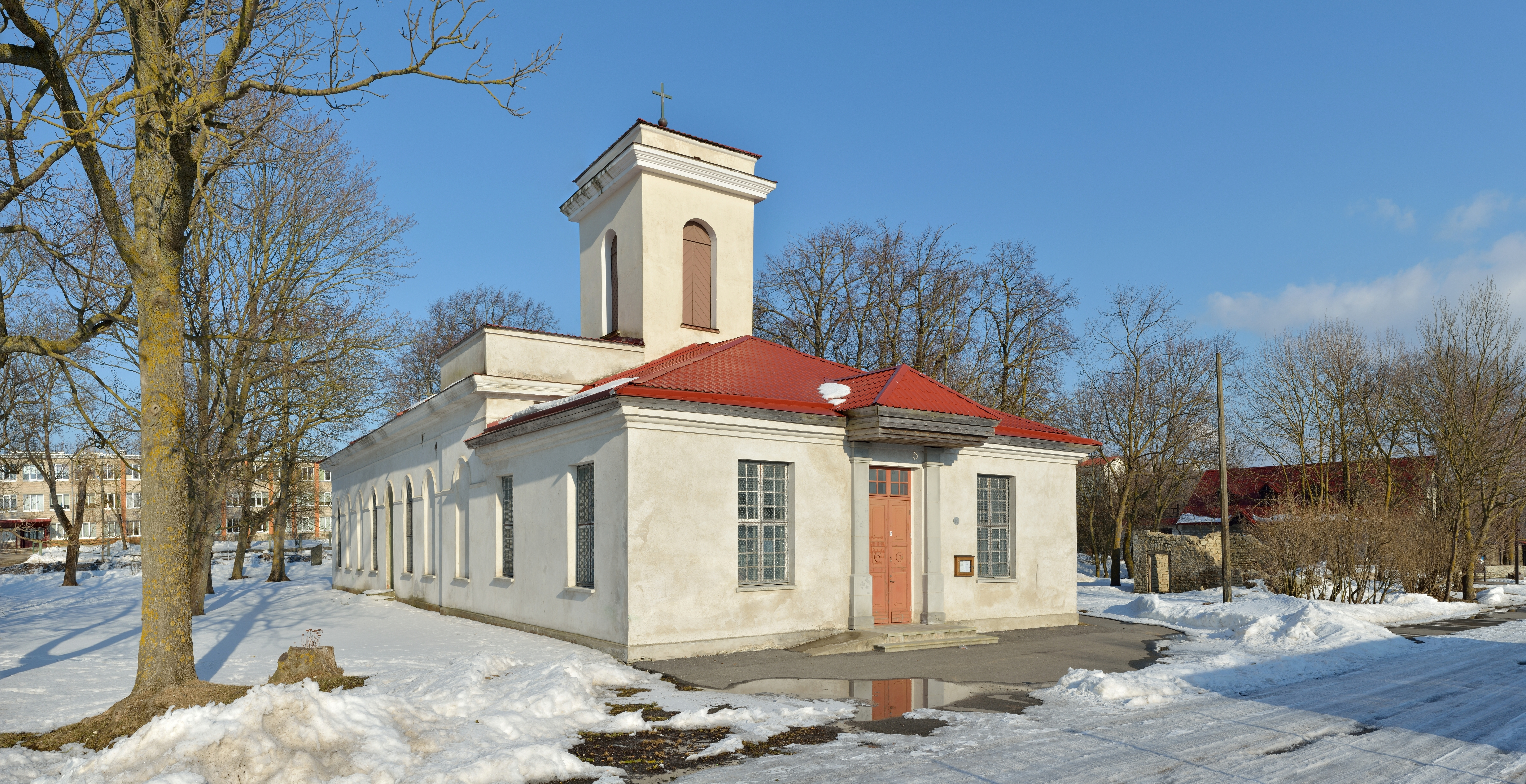 St. Nicholas' Church in Paldiski, built in 1841